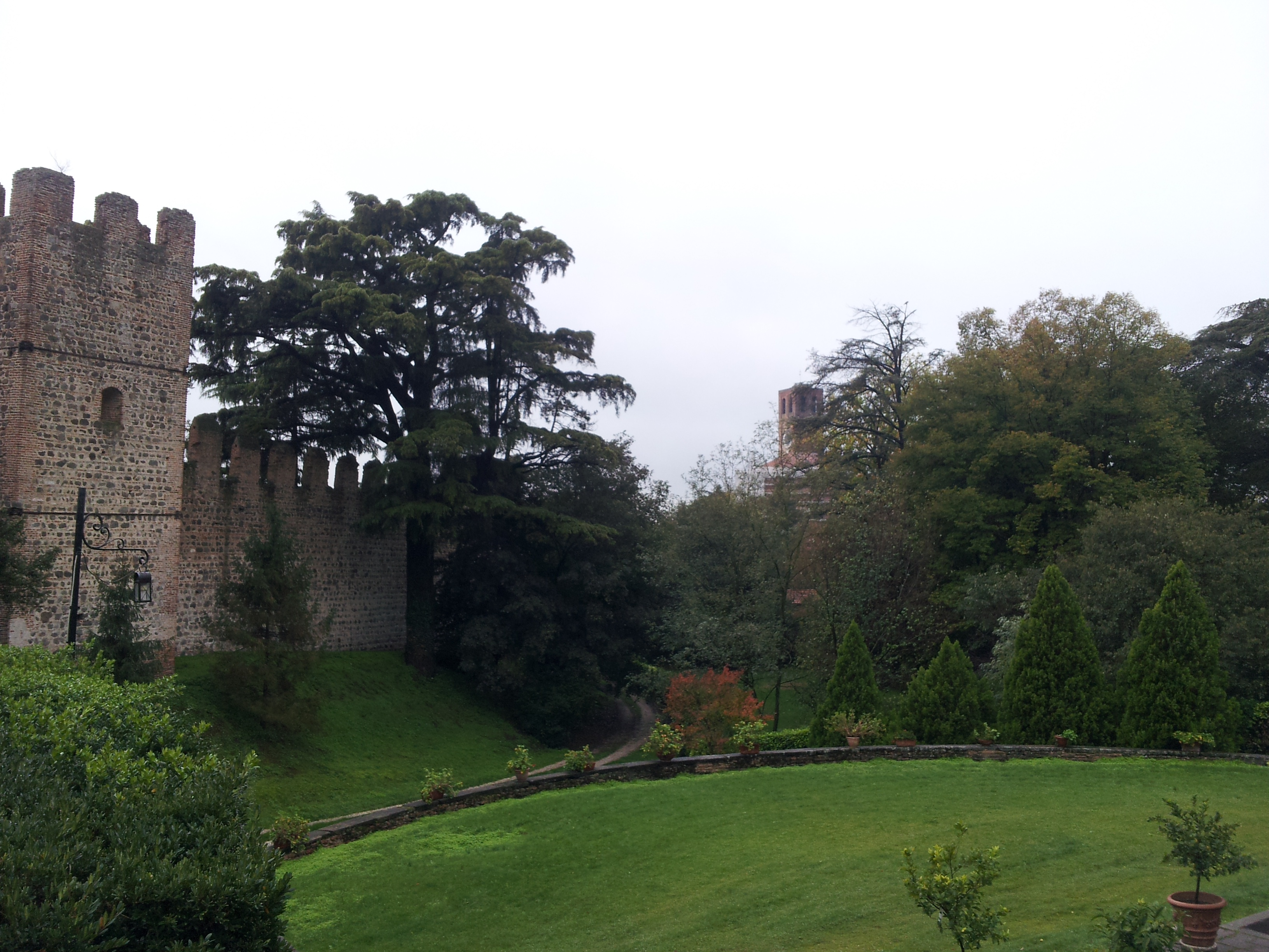 A View on Este' s Dome